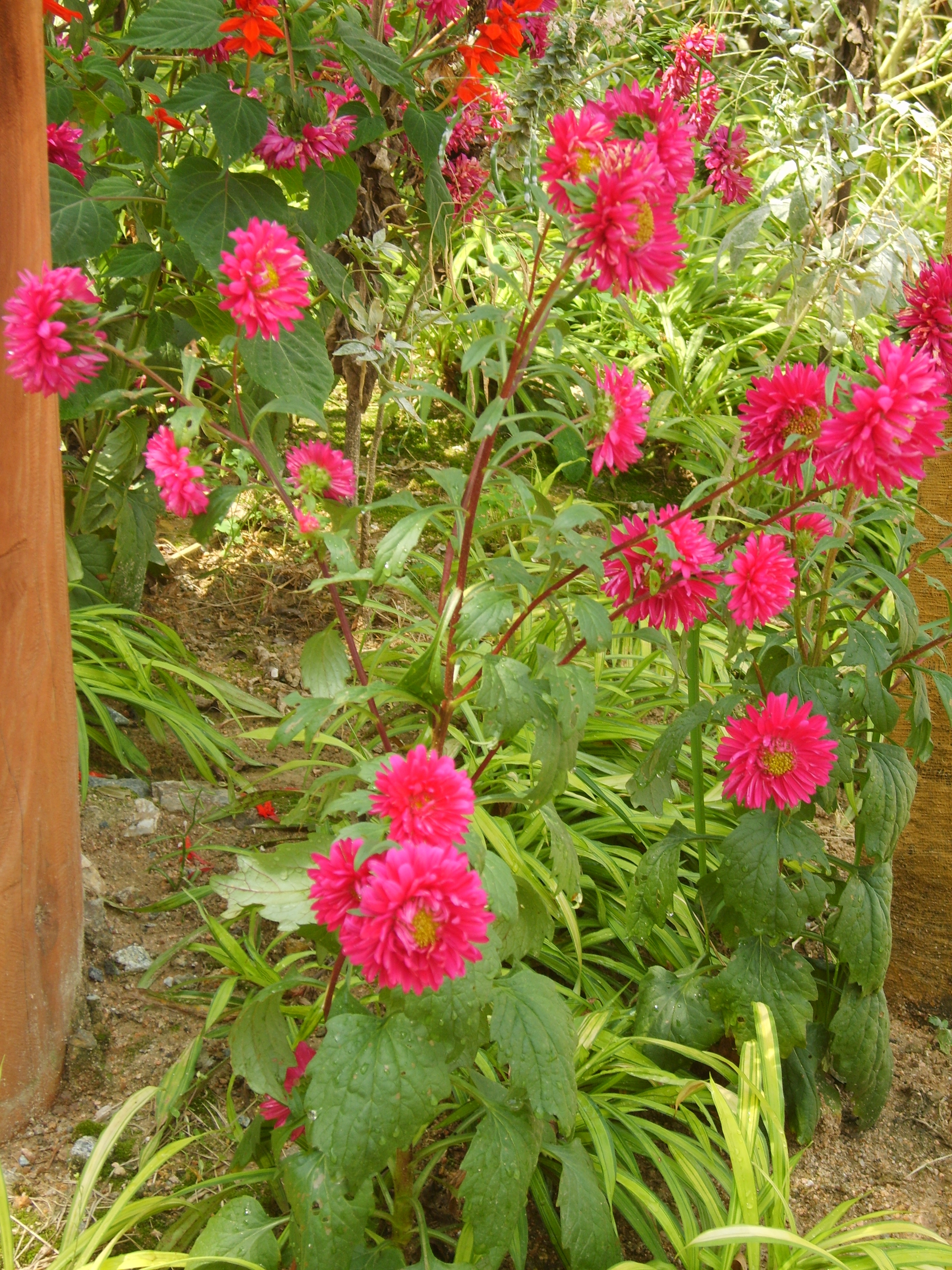 Callistephus chinensis in Bupyung, Korea